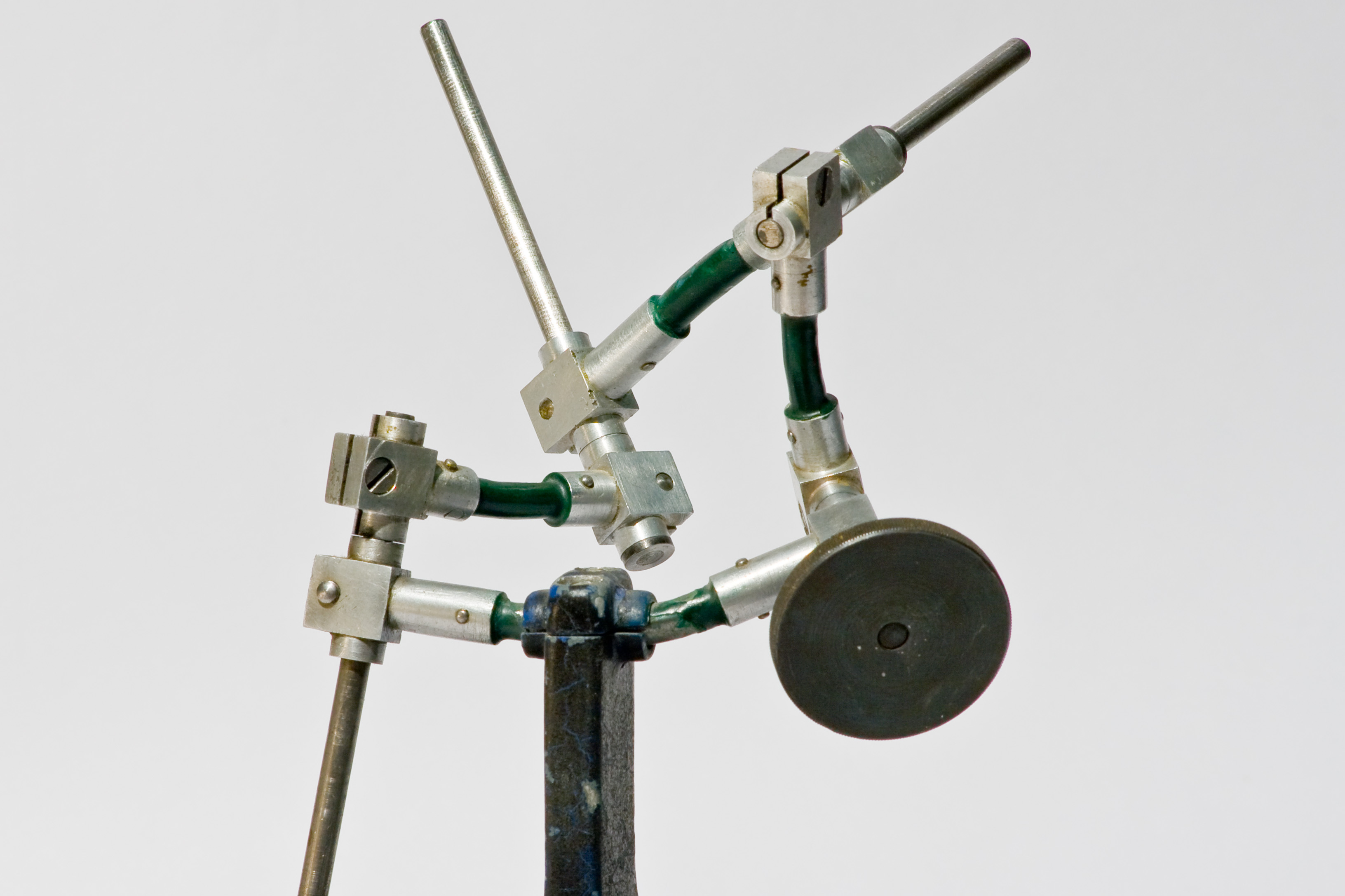 Bennett linkage - the four-bar rotational linkage.